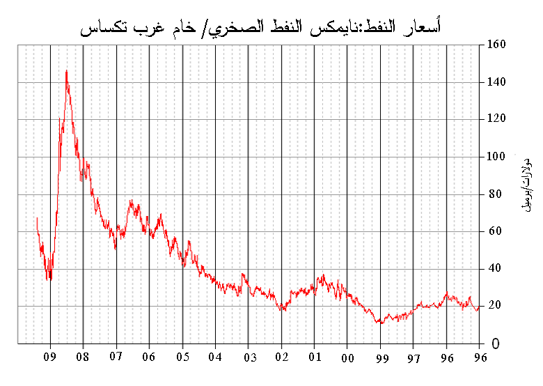 1=The graph from here: Completely redone from the ground up. Same source is used: Ten-day moving average of prices of NYMEX Light Sweet Crude, taken from data at the New Mexico Institute of Mining and Technology. Prices are nominal (not adjusted for inflation).